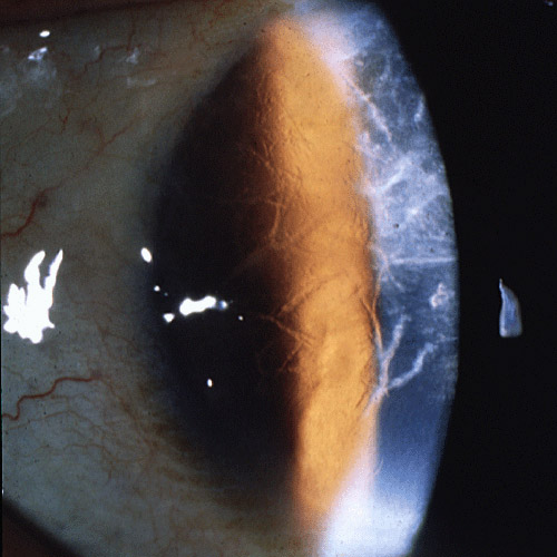 Lattice corneal dystrophy type I. A network of thick linear corneal opacities in patient with a variant of LCD1 (LCD type III) due to a homozygous p. Leu527Arg mutation in the TGFBI gene. Klintworth Orphanet Journal of Rare Diseases 2009 4:7